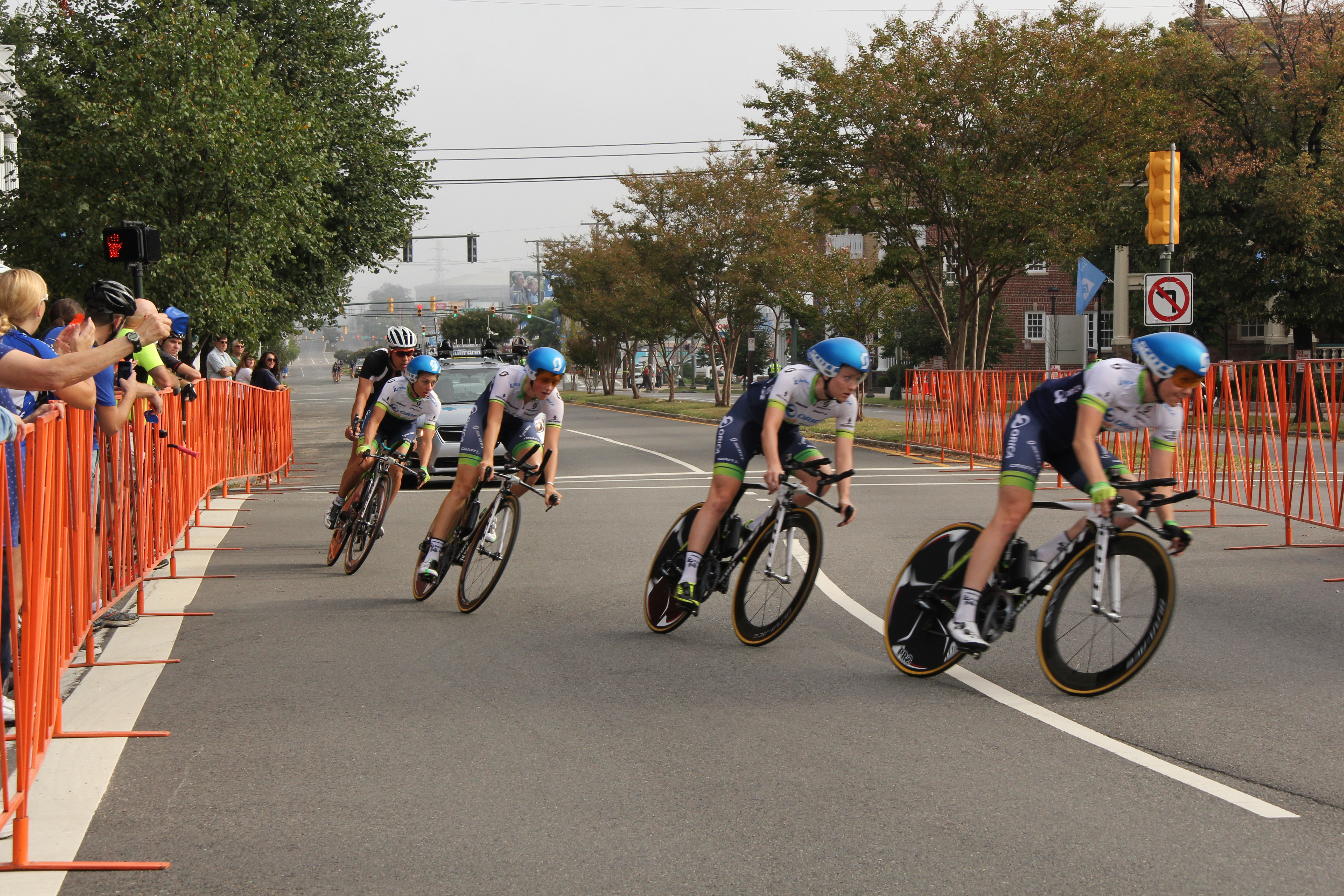 The world has come to Richmond. Welcome! Bienvenidos! Willkommen! 2015 UCI Road World Championships, in Richmond, United States